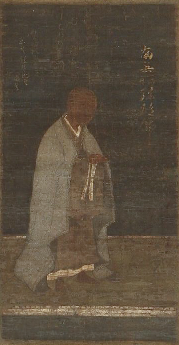 Taa Shōnin, Shōnenji, Sakai, Fukui, Japan